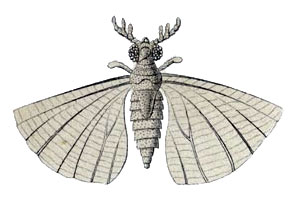 Mengea tertiaria (Mengeidae)